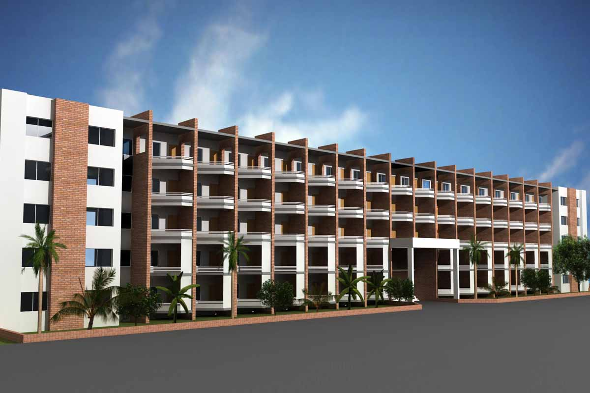 Five stored Boys hall where have residensial facilities for 500 students.